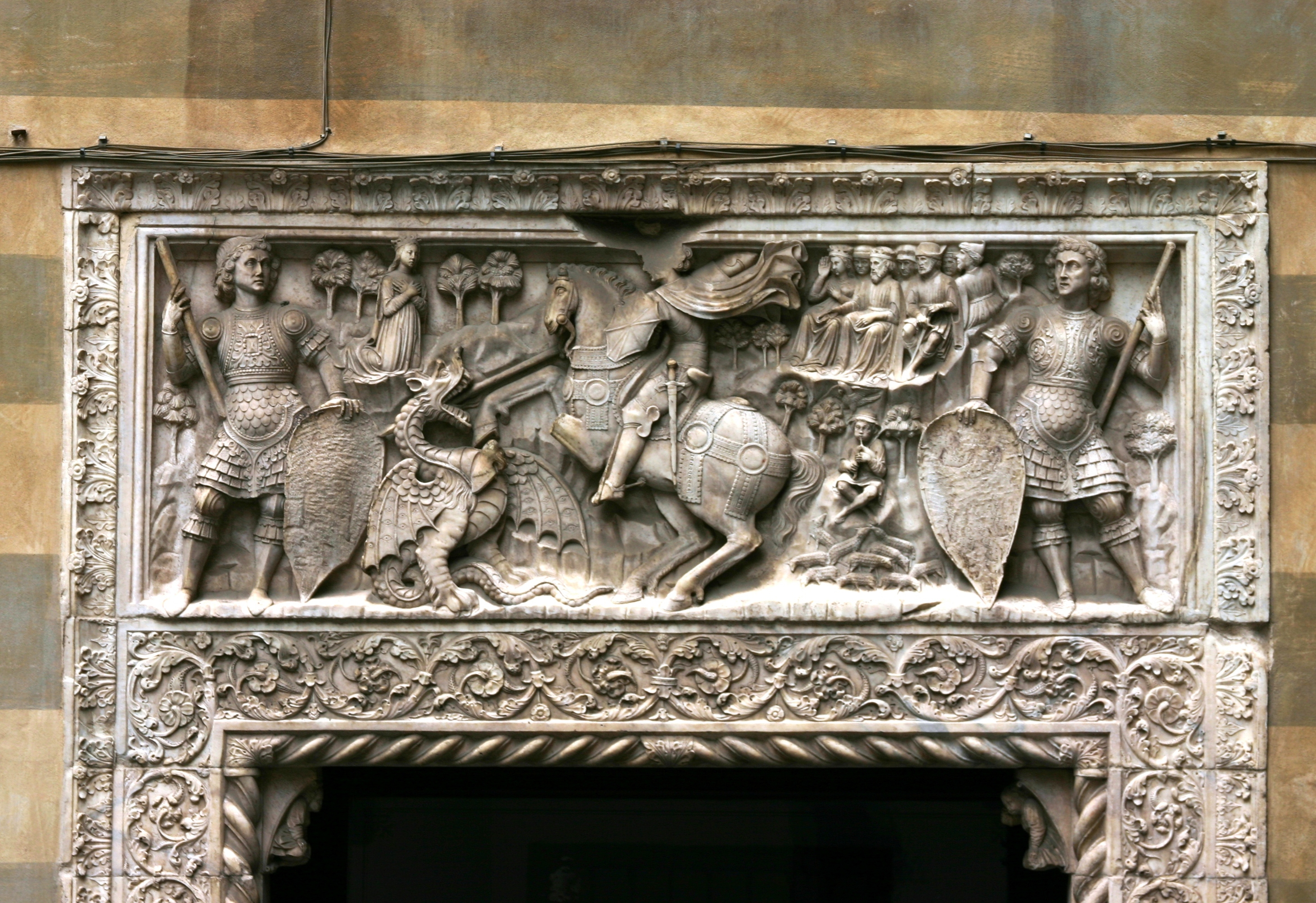 Piazza San Matteo (Genoa)